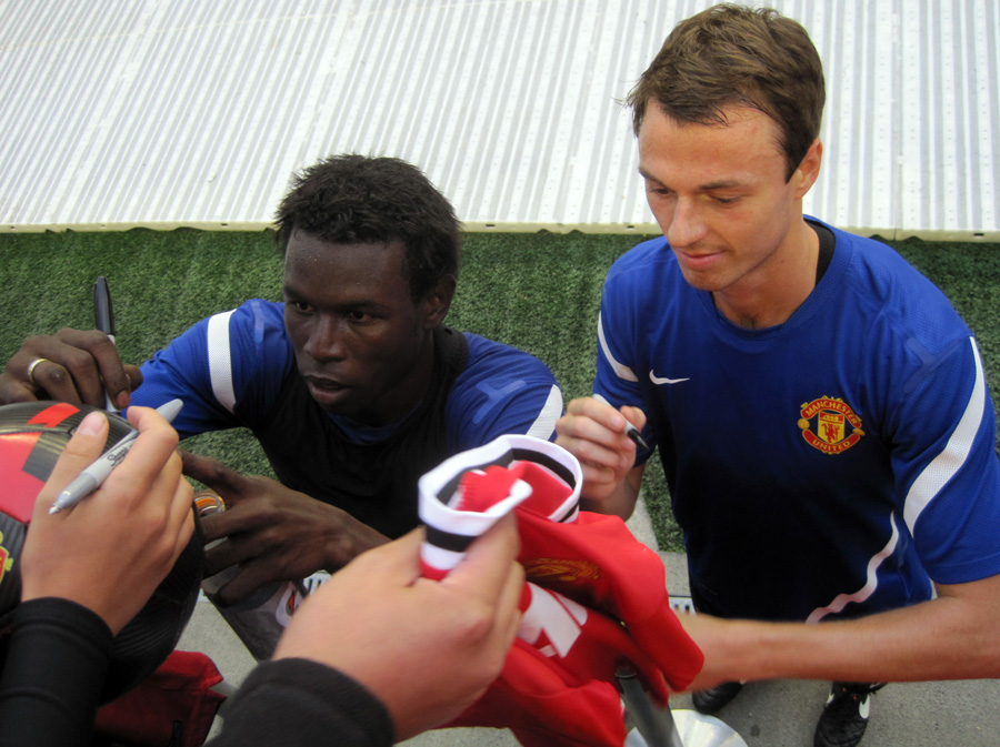 Mame Biram Diouf and Jonny Evans in Seattle